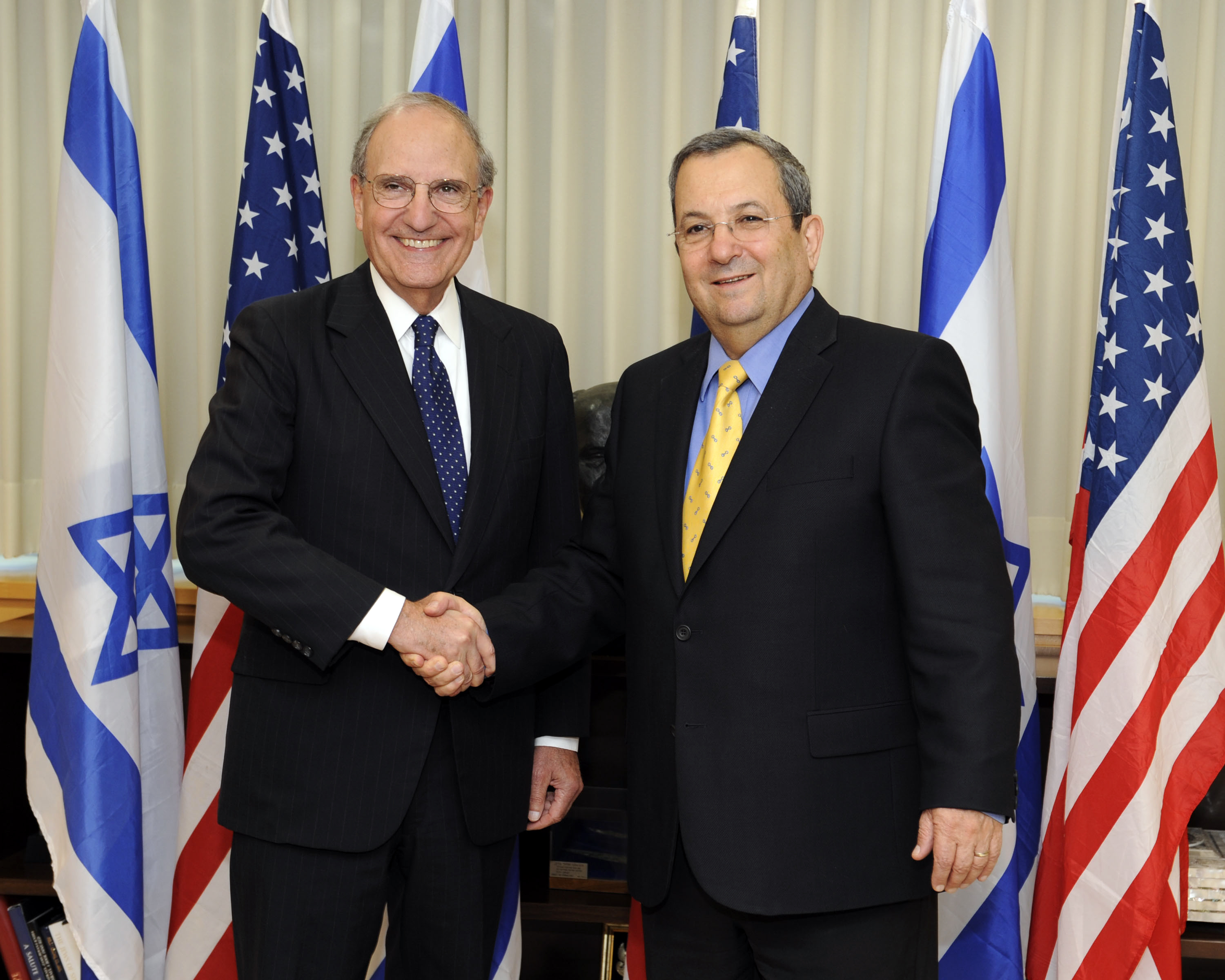 U.S. Special Envoy George Mitchell with Israeli Minister of Defense Ehud Barak before their meeting in Tel Aviv, Israel July 26, 2009. [State Department photo by Matty Stern, U.S. Embassy Tel Aviv]